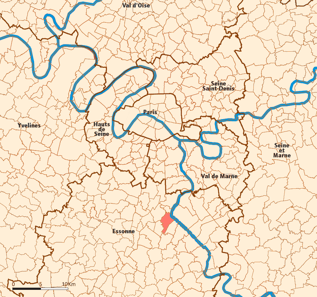 Created map myself.